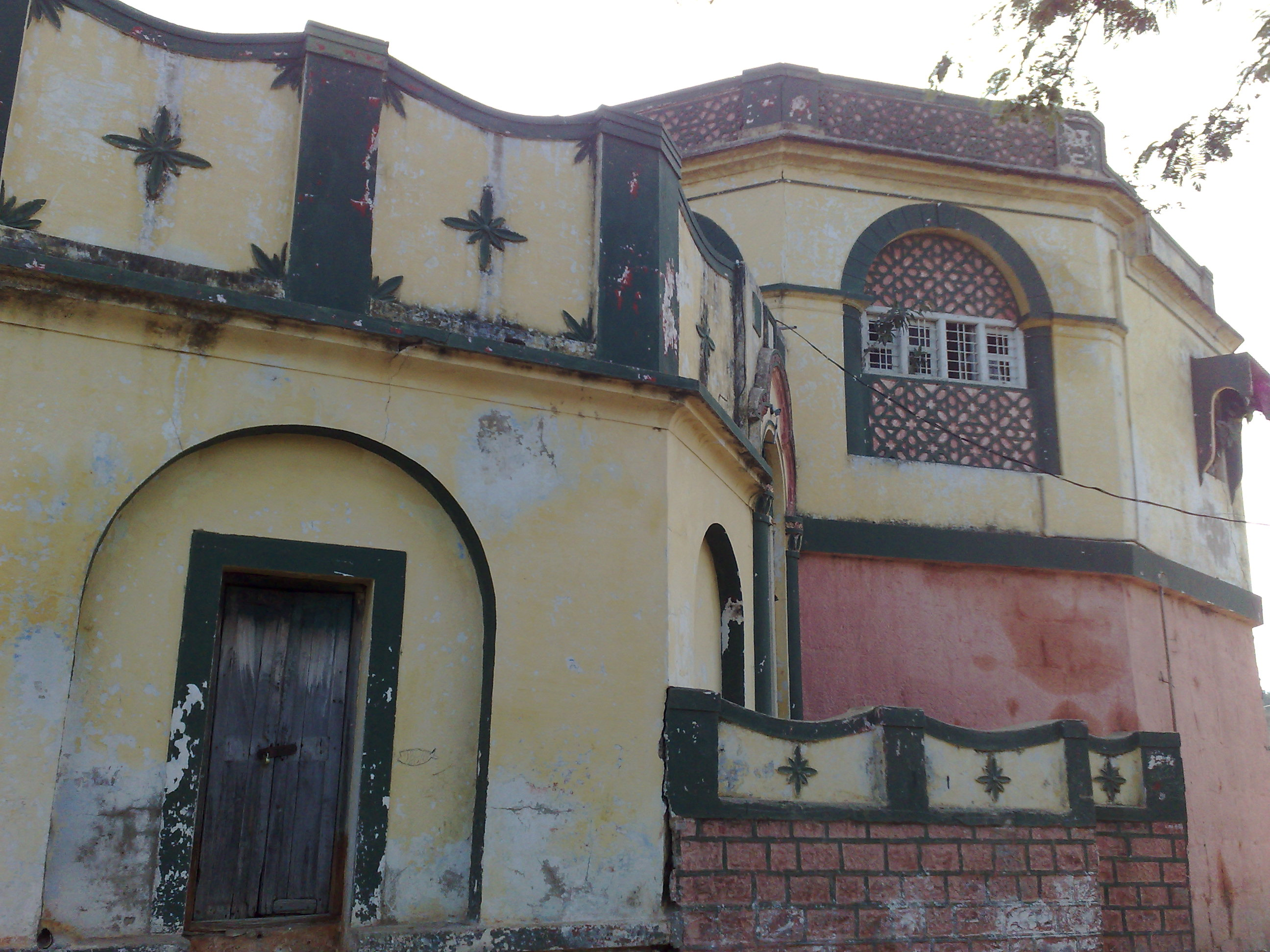 neglected.